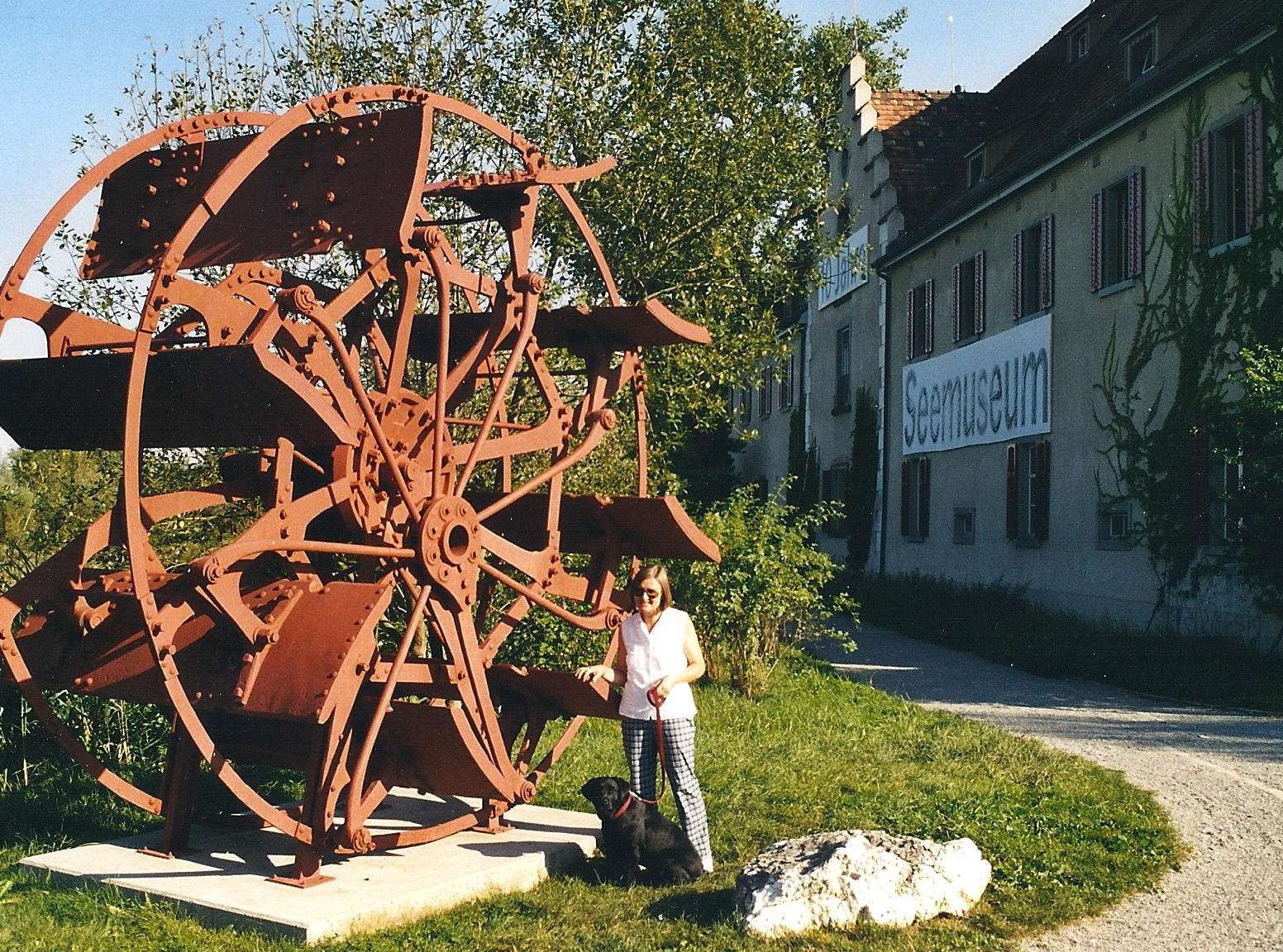 Sidewheel of the Lake Geneva steamship Major Davel (1889–1968/1990) in front of the Seemuseum Kreuzlingen